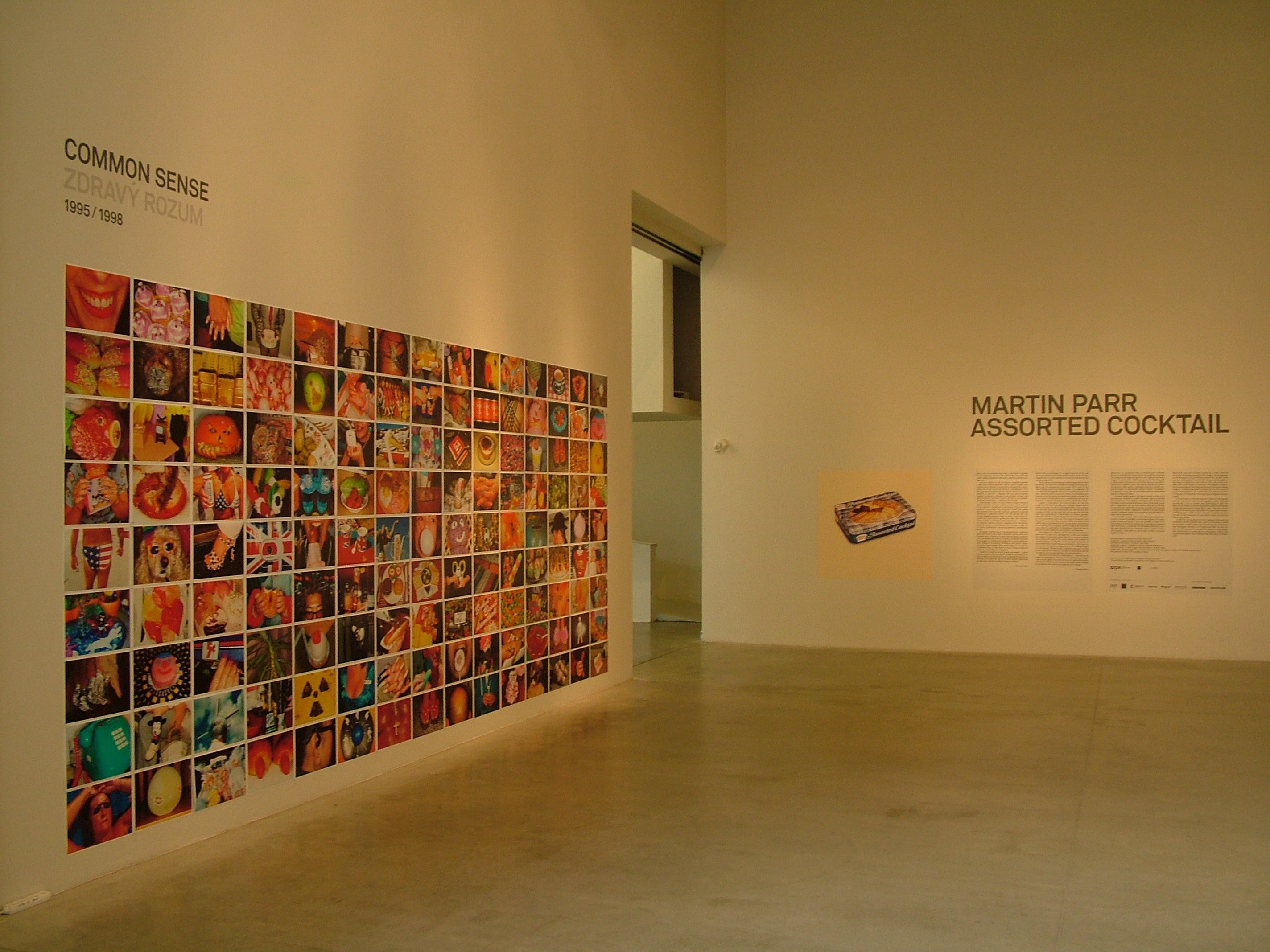 Výstava Martina Parra, Praha, MARTIN PARR: Assorted Cocktail, 10. 2 - 16. 5 2011